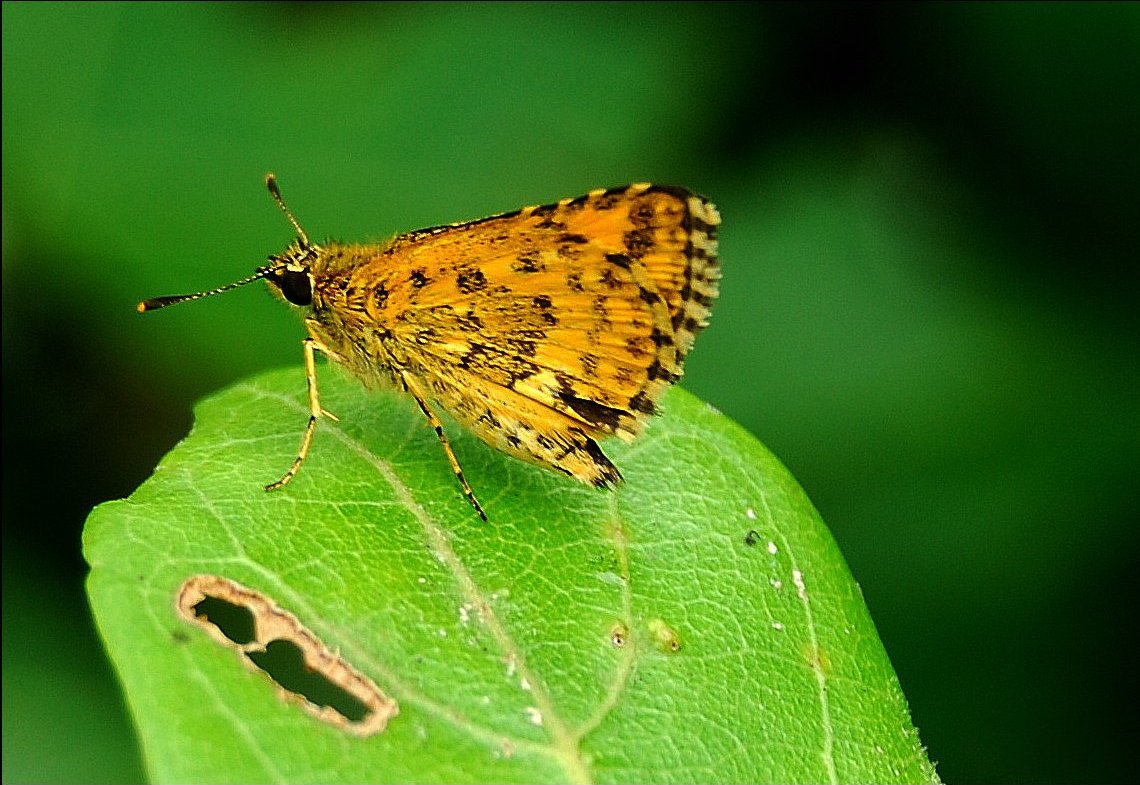 Ampittia dioscorides (Fabricius, 1793), Seen in Kerala, South India.